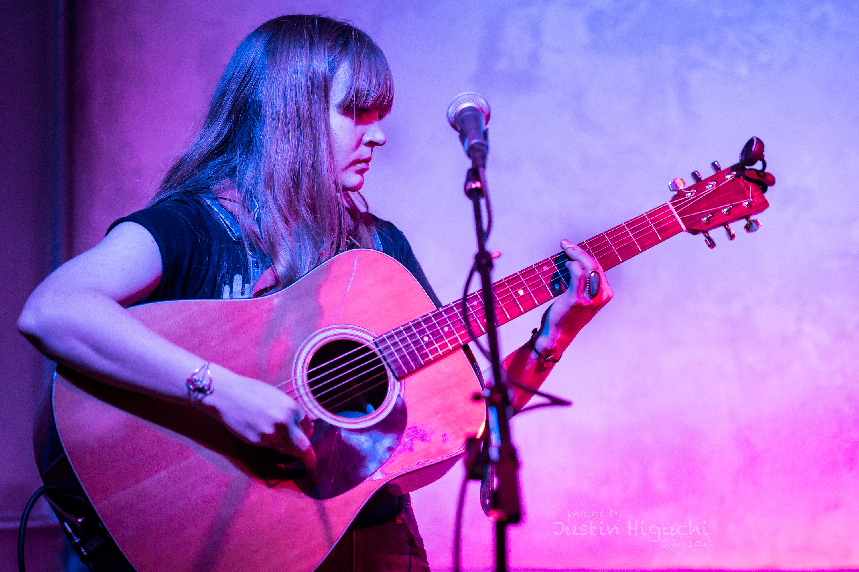 Courtney Marie Andrews performing live in the Out of Order bar at Tenants of the Trees in Silverlake, Los Angeles, California, on Wednesday, January 4, 2016.